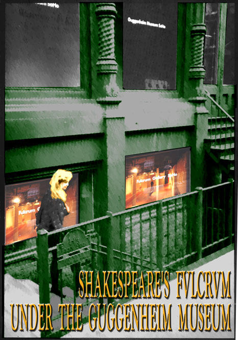 Valerie Monroe Shakespeare entering her new Fvlcrvm Gallery under the Guggenheim Museum in SoHo